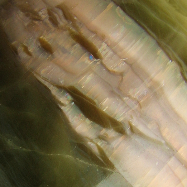 Detail of a piece of Arizona serpentine showing chatoyancy